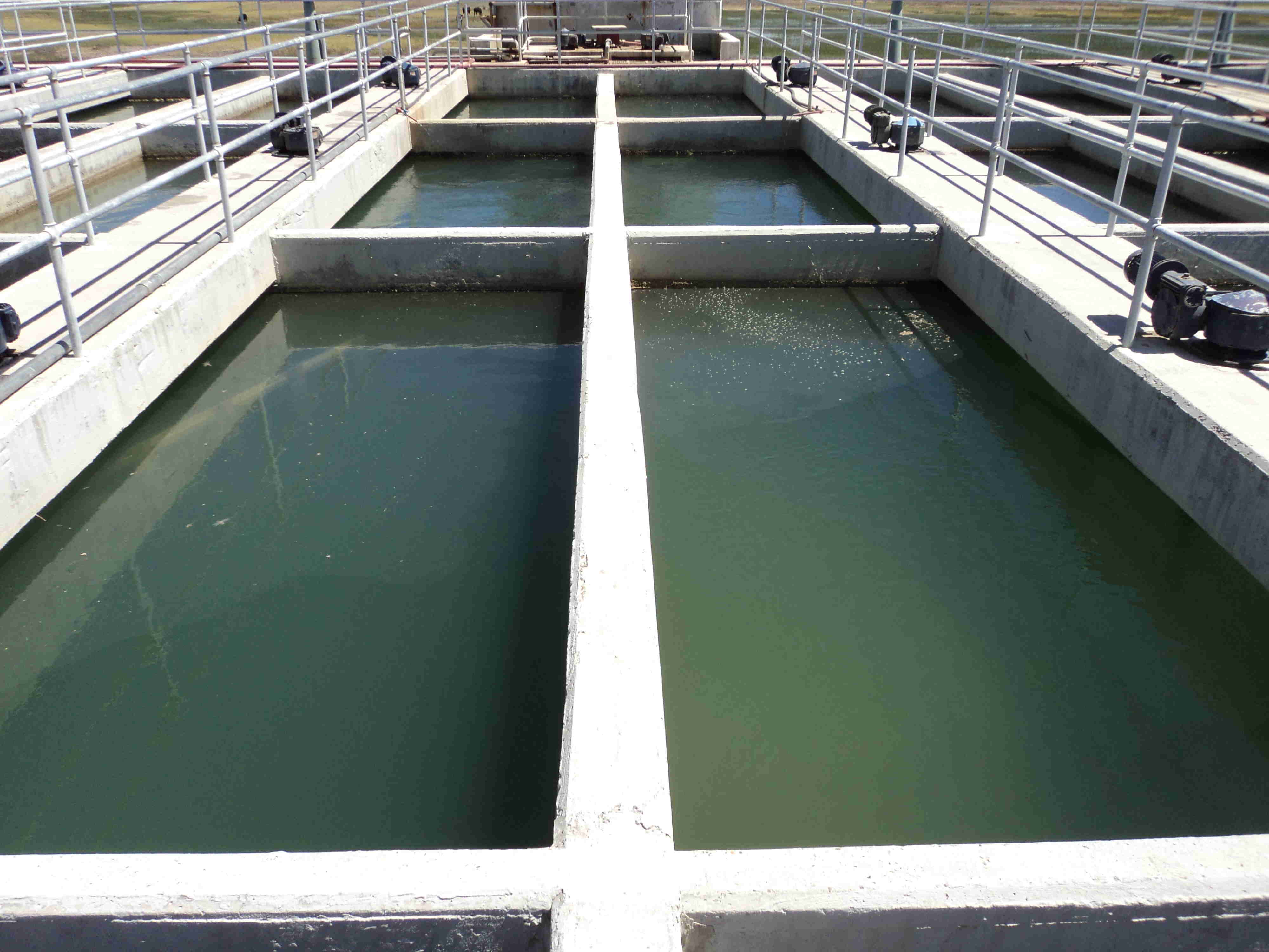 Floculadores de tres etapas en serie - Planta potabilizadora Acueducto Nuevo